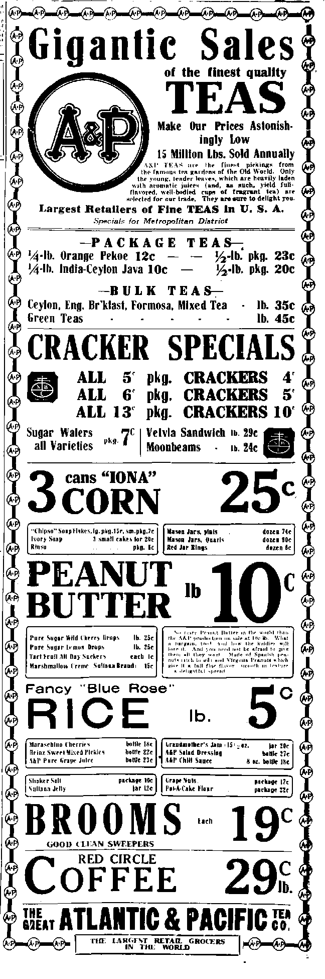 A&P newspaper ad from New York City, dated 1922. Converted to black and white, cropped using gimp.